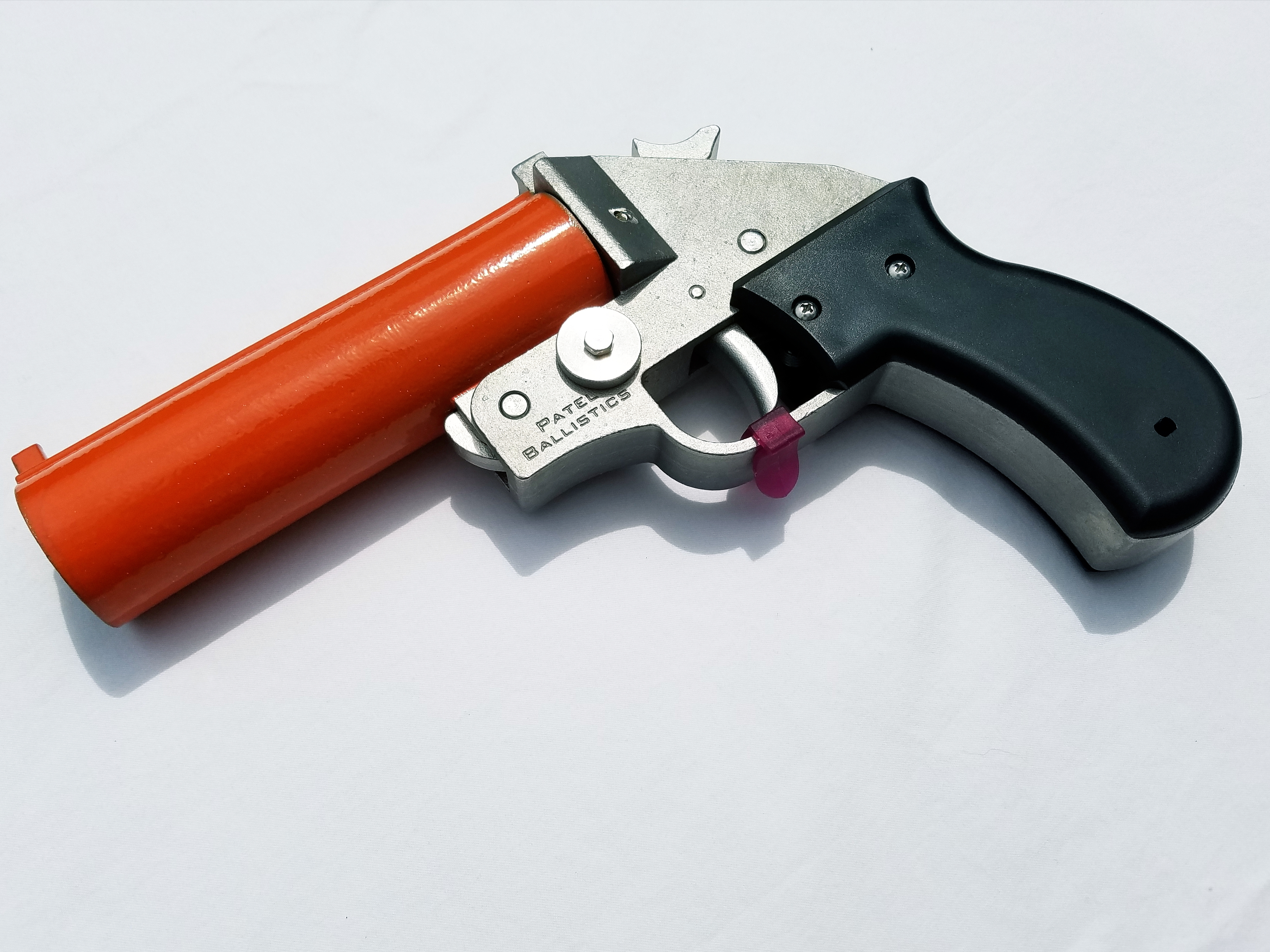 A single-shot, 26.5/25mm flare gun produced by Patel Ballistics. It is chambered in a different caliber than the Orion flare gun.